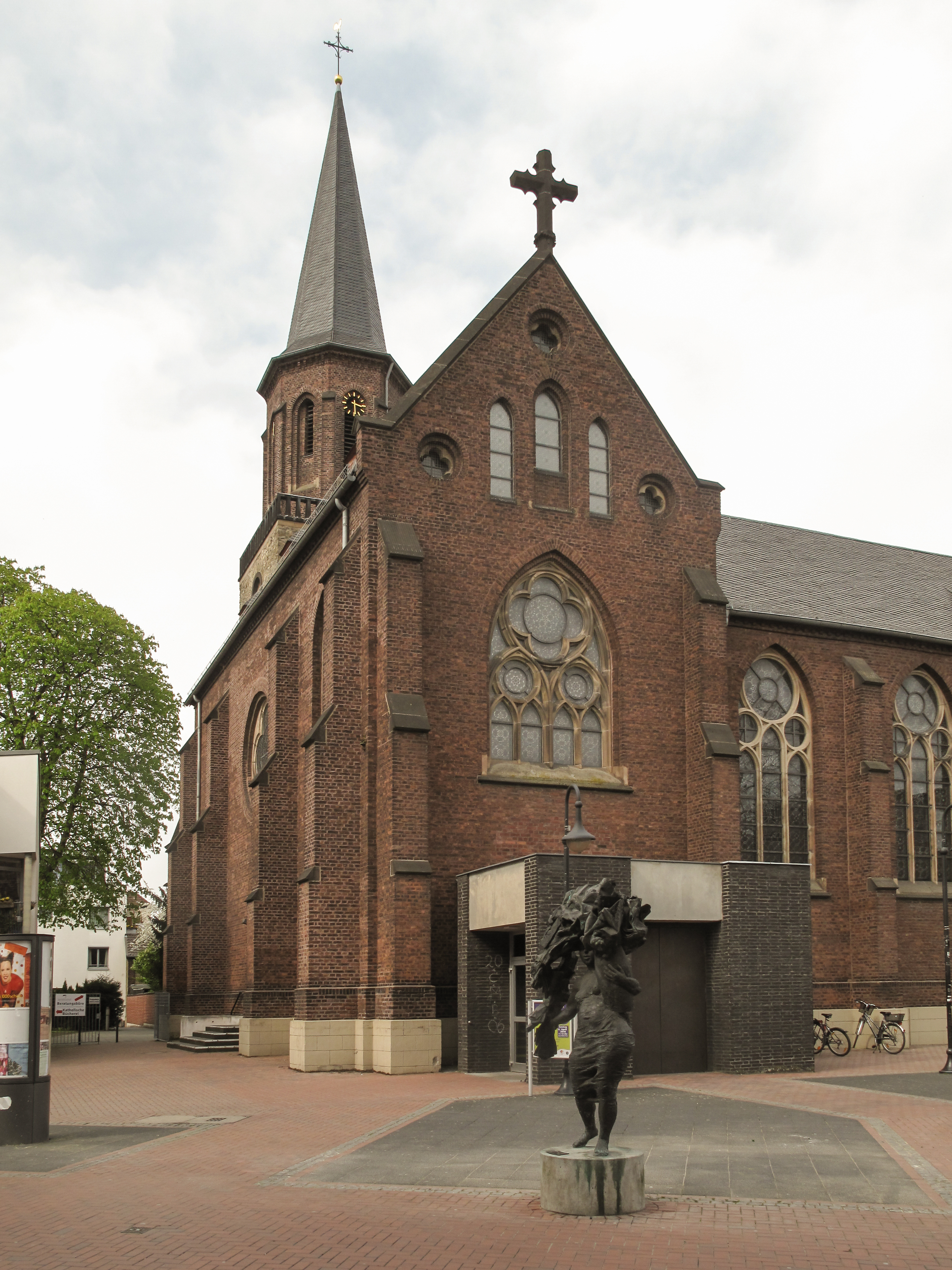 Hilden, church: die Sankt Jacobuskirche This is a photograph of an architectural monument.